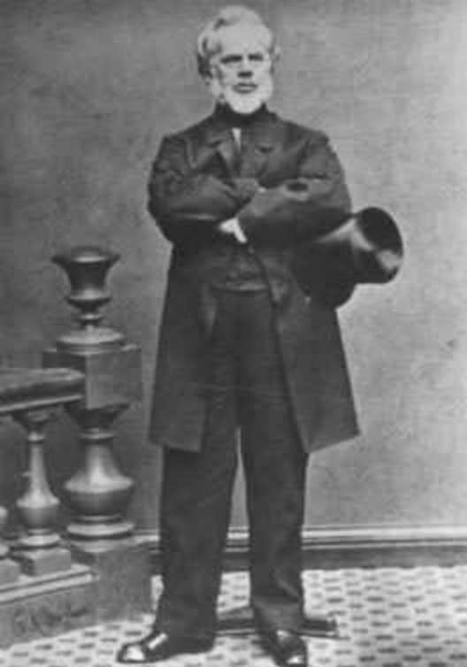 Phineas Parkhurst Quimby (1802–1866), New England mentalist